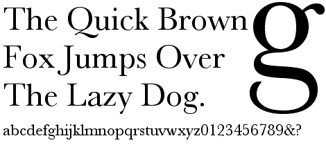 sample text in Baskerville font